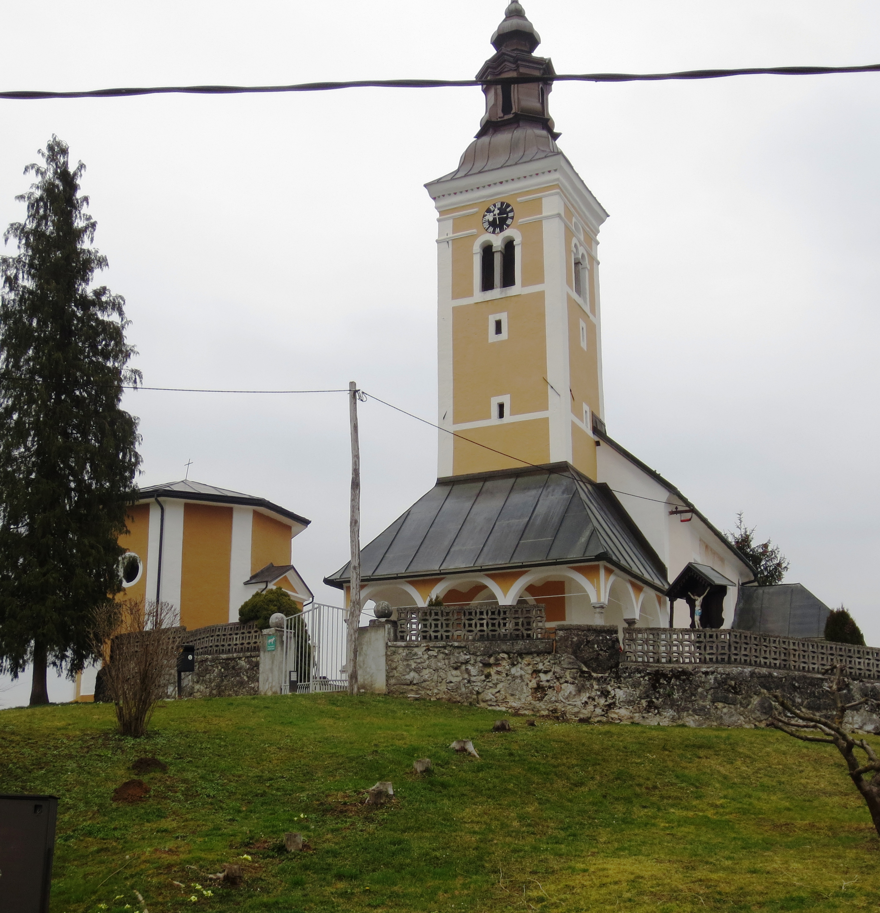 st. Martin church in Zalog